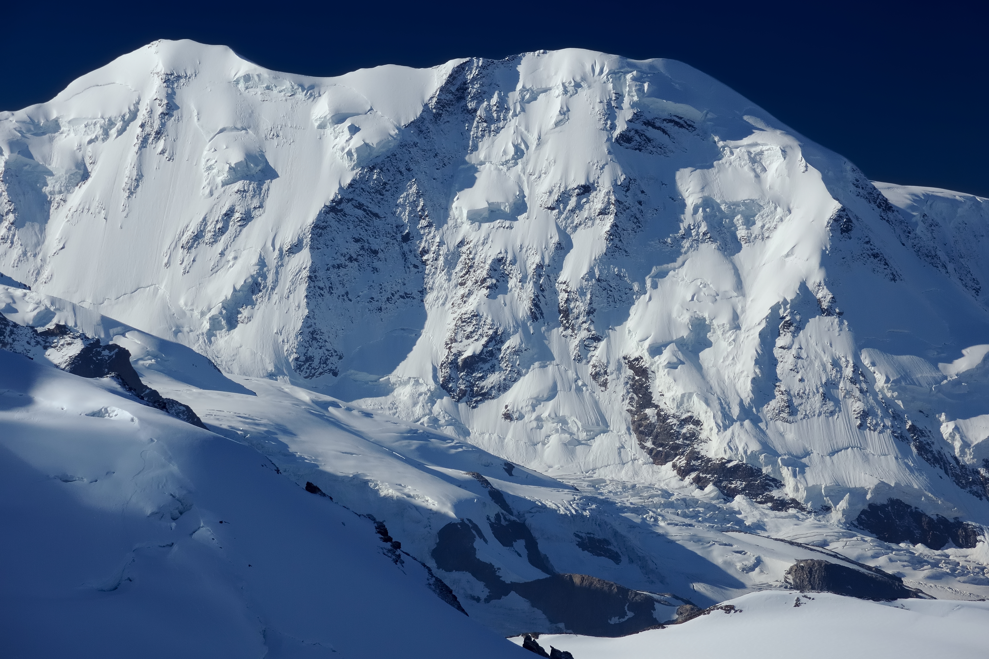 Lyskamm north side, from near the Feechopf. Elevation points are from the Swisstopo maps.